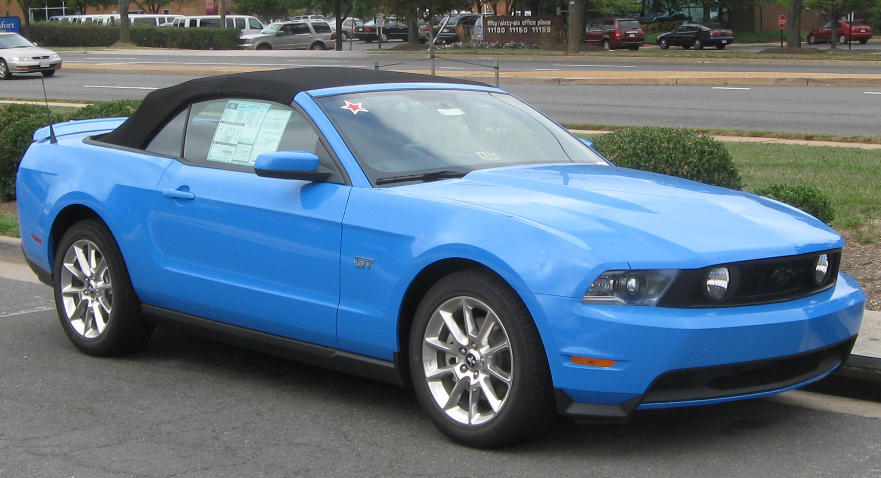 2010 Ford Mustang GT convertible photographed in Fairfax, Virginia, USA.